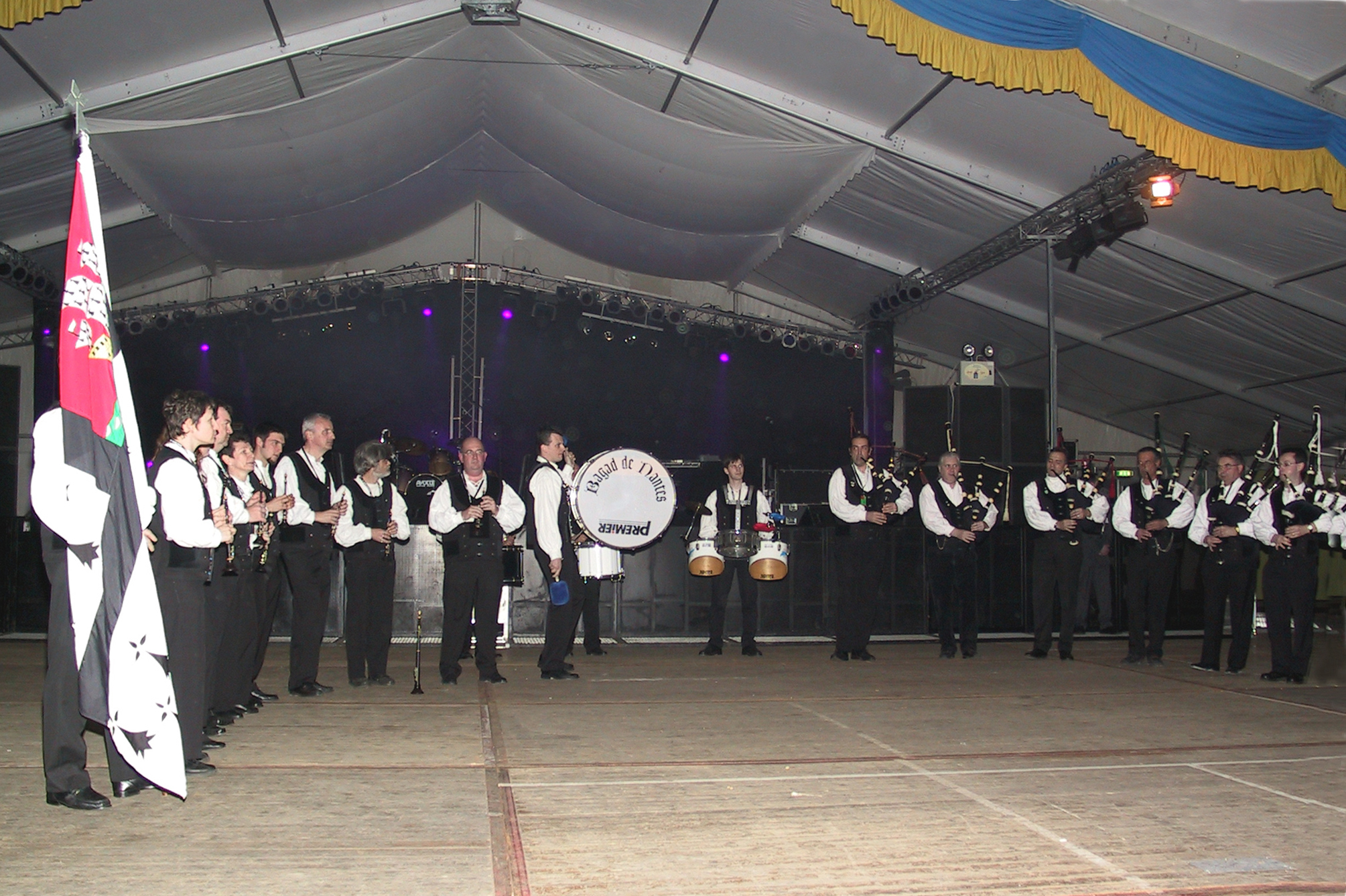 Bagad Naoned de Nantes at Celtic Celebration (Zeltik) 2003, Dudelange